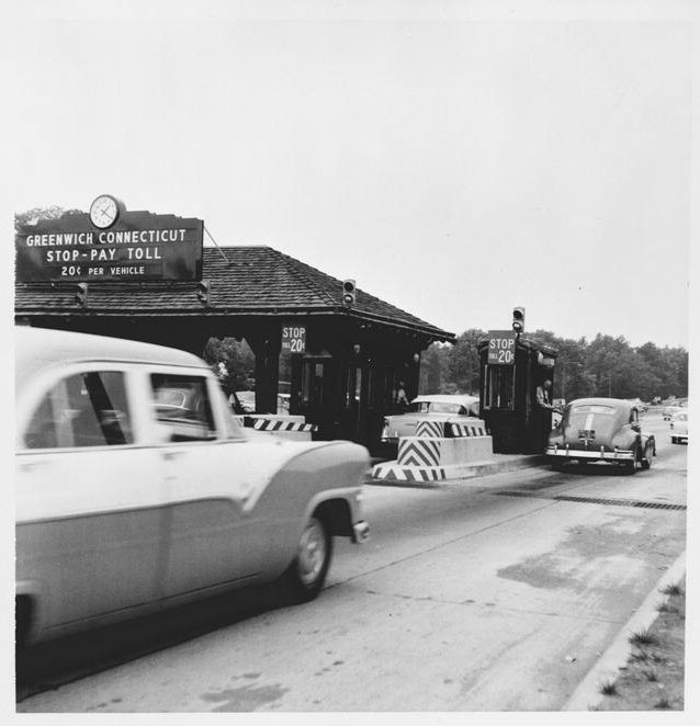 Merritt Parkway Tollbooth — in Connecticut. 1955 photo from the HABS—Historic American Buildings Survey of Connecticut.